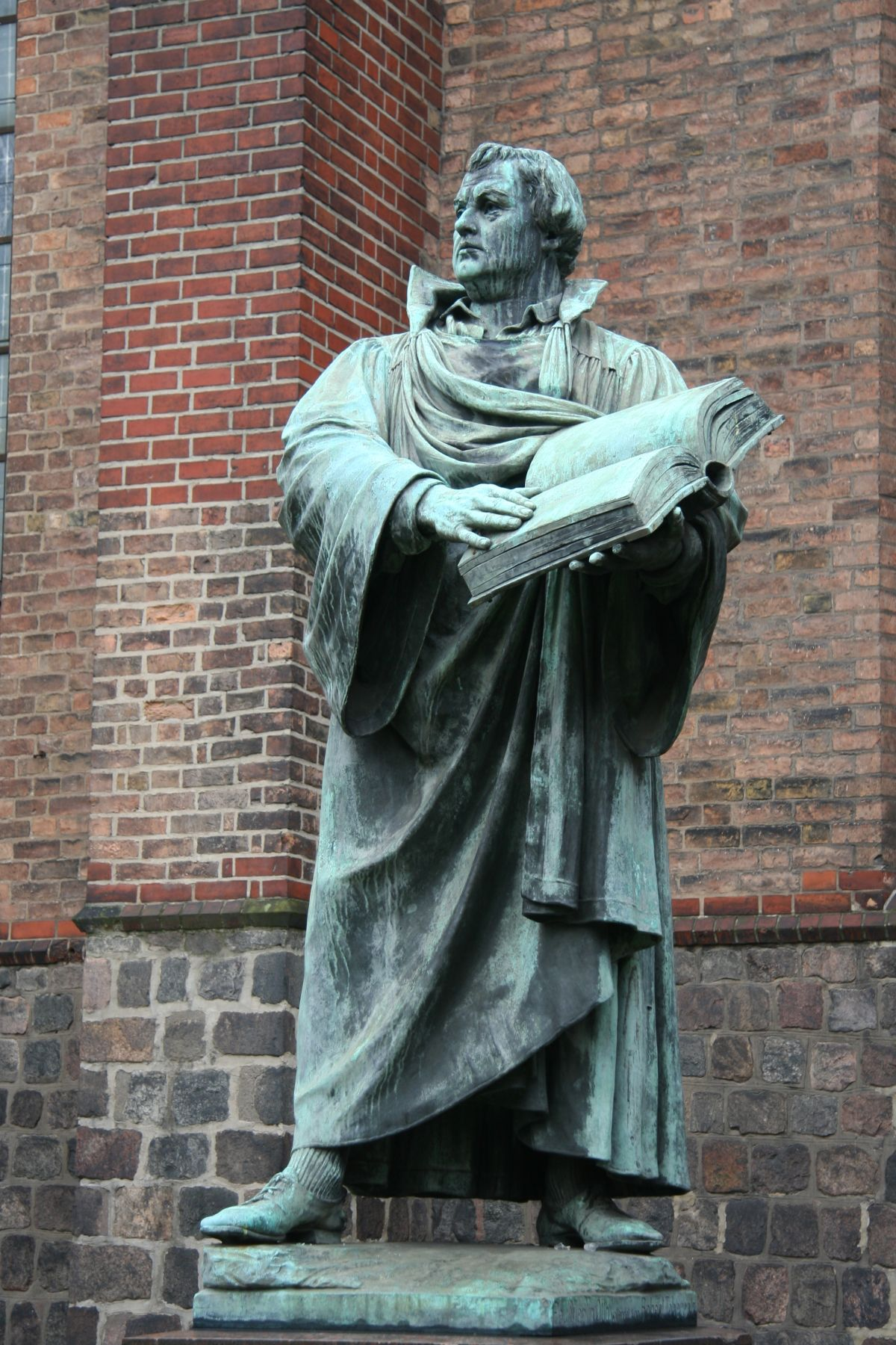 St. Mary Berlin, Martin Luther monument